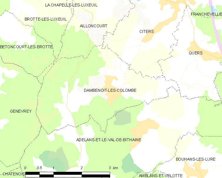 Map of French municipality